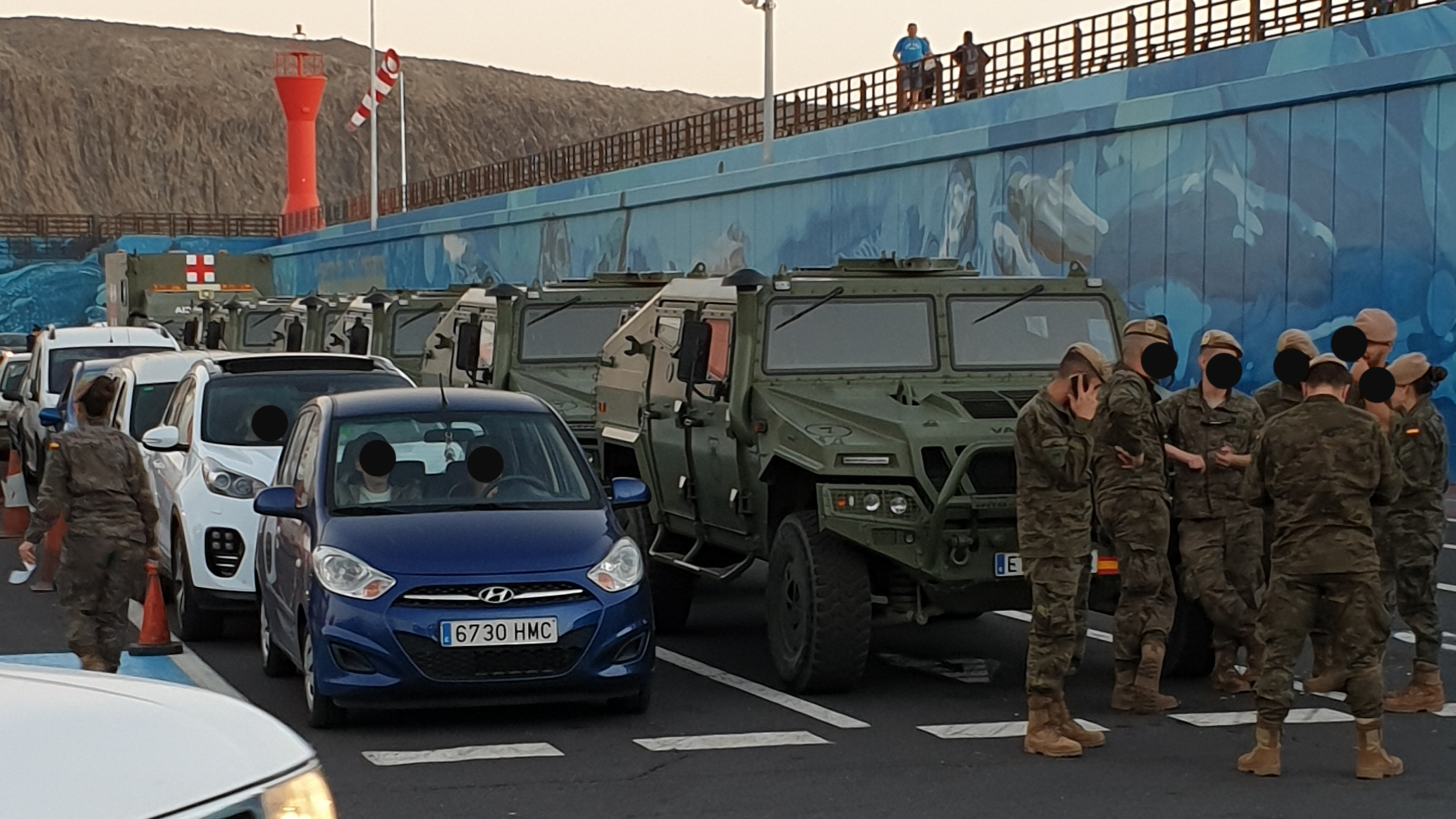 URO VAMTAC vehicles.